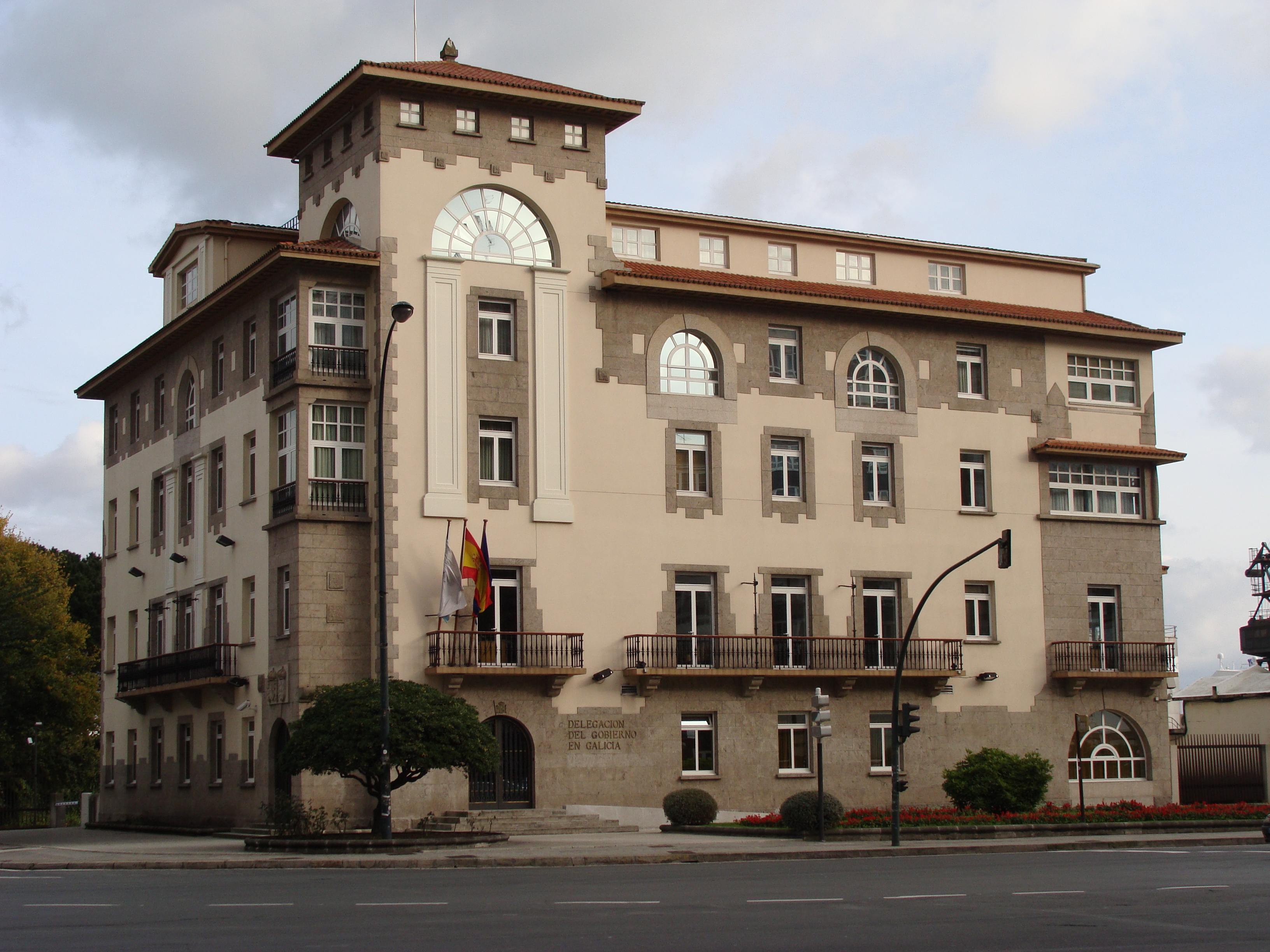 Government Delegation of Galicia in Corunna, Spain